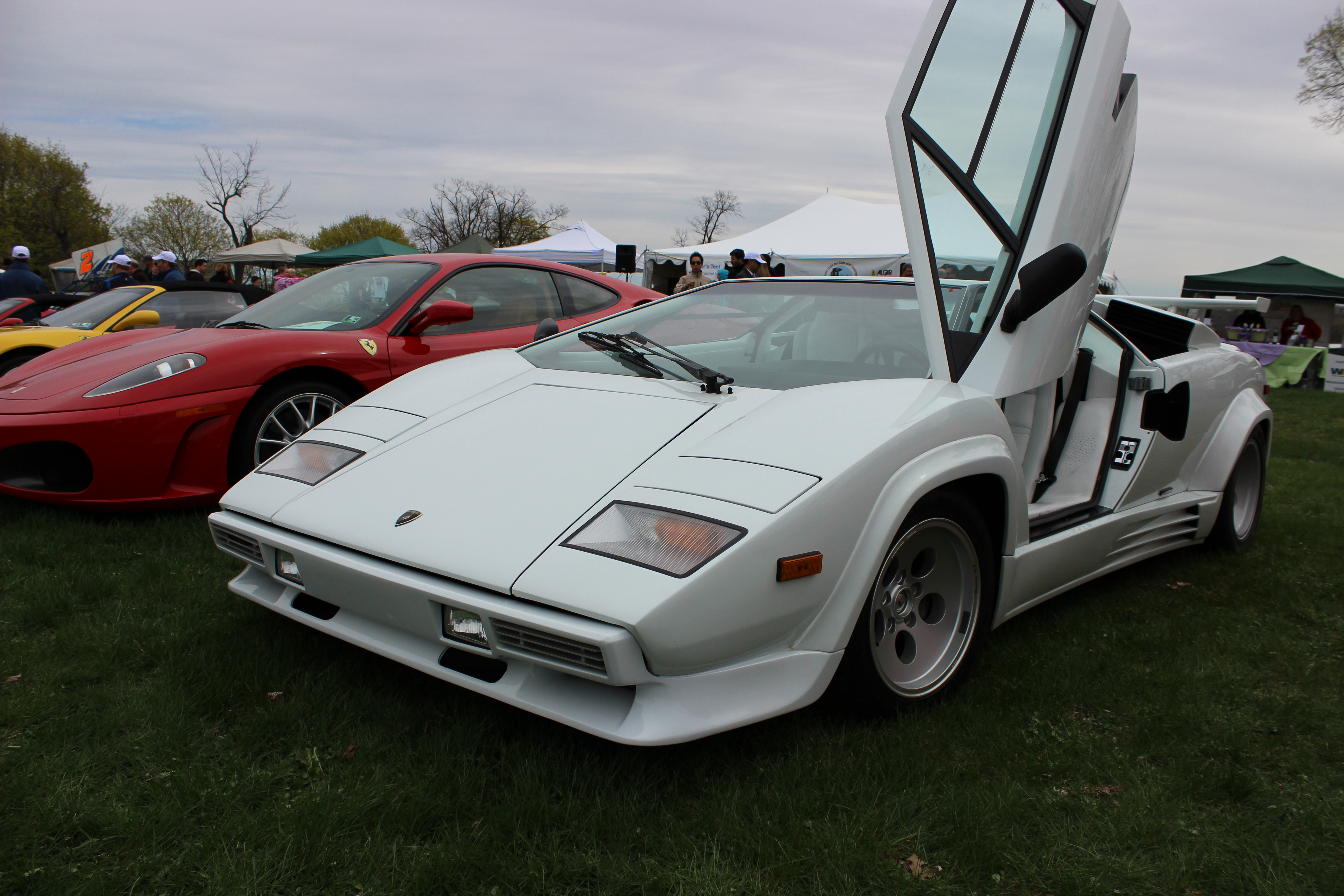 Lamborghini Countach LP5000QV